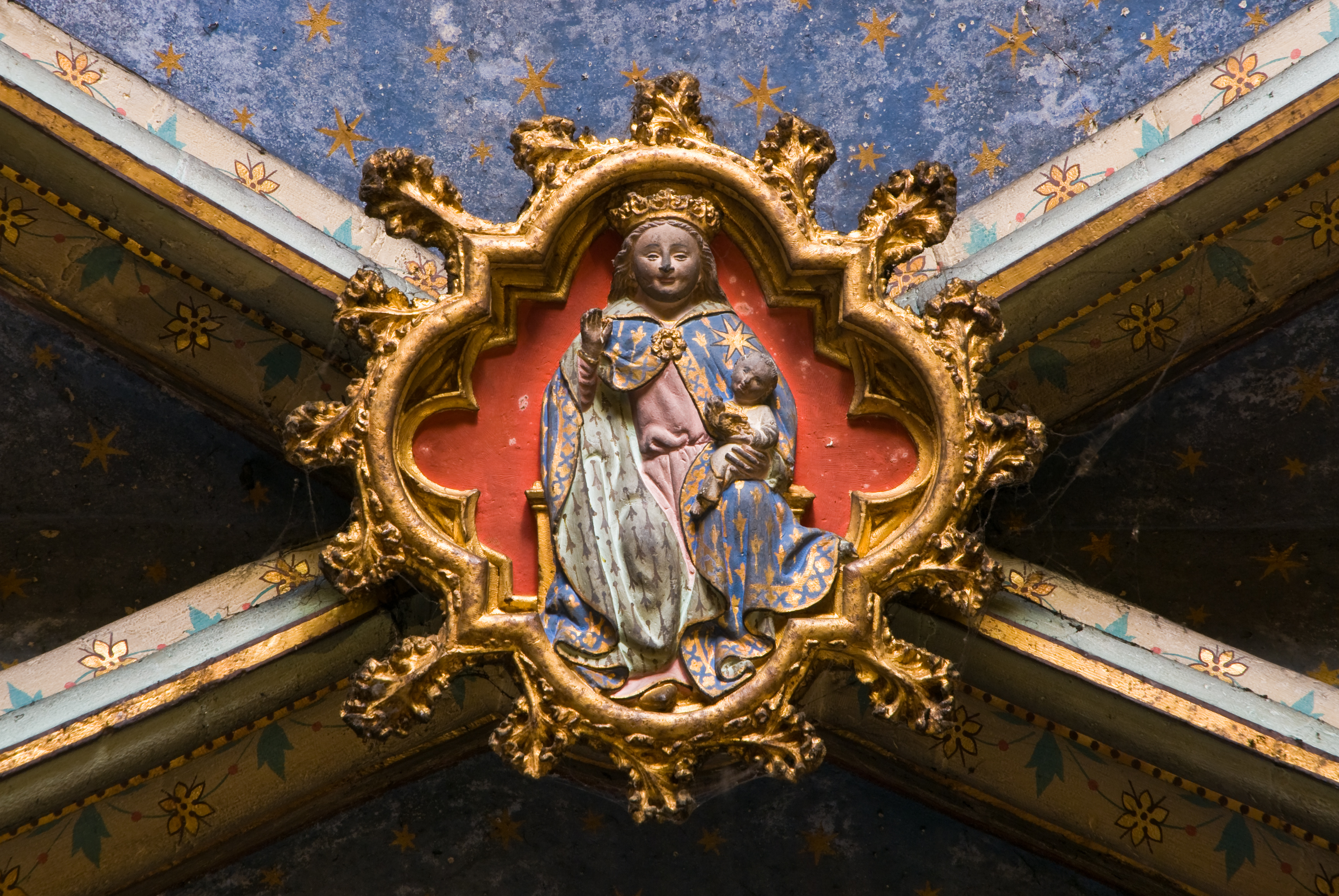 Vault keystone of an apse chapel (Toulouse Cathedral, France)